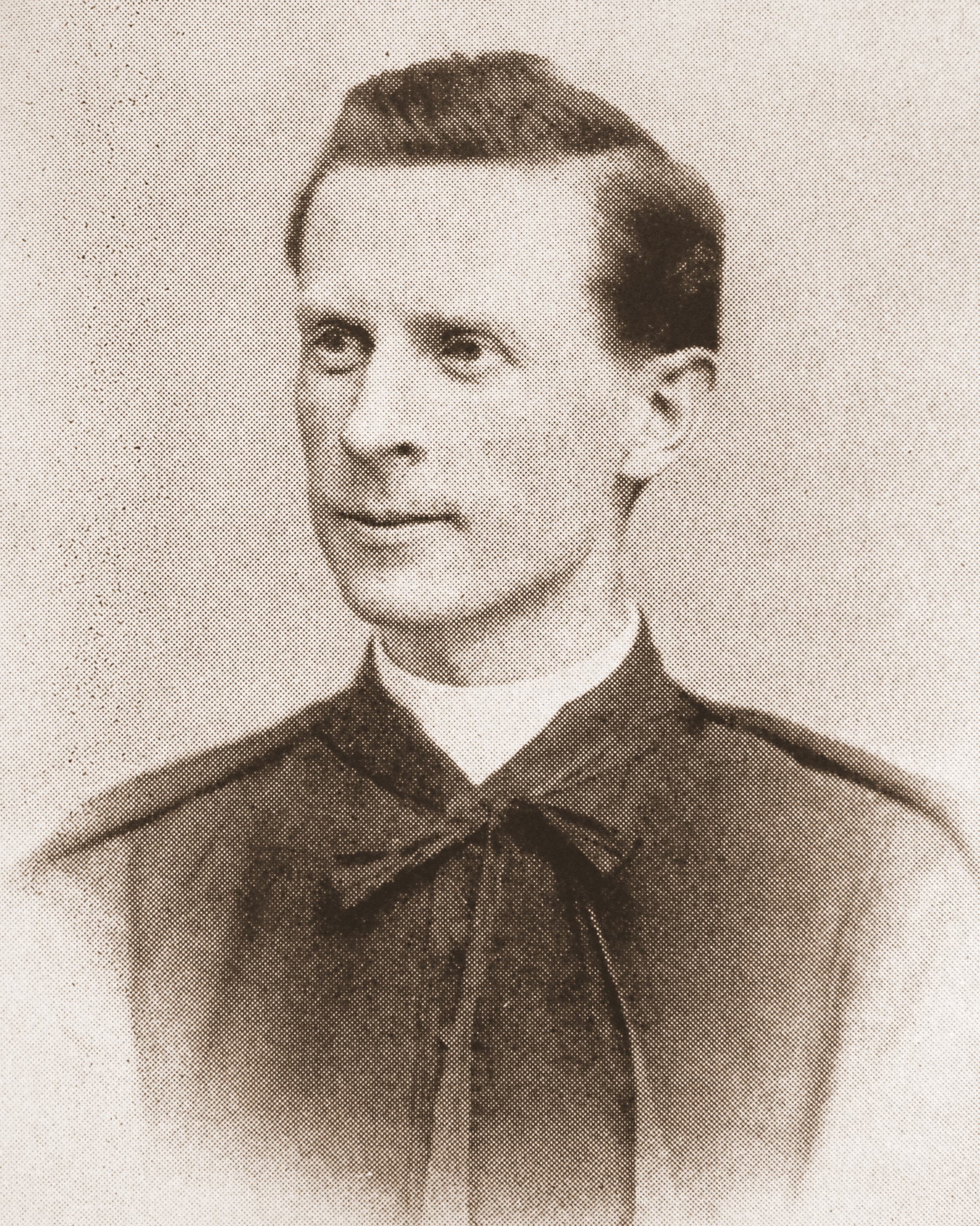 Photograph of a portrait of Augustine Schulte (1856–1937), which is currently in the possession of St. Charles Borromeo Seminary in Philadelphia; it was done during his tenure there, which ended before 1927.